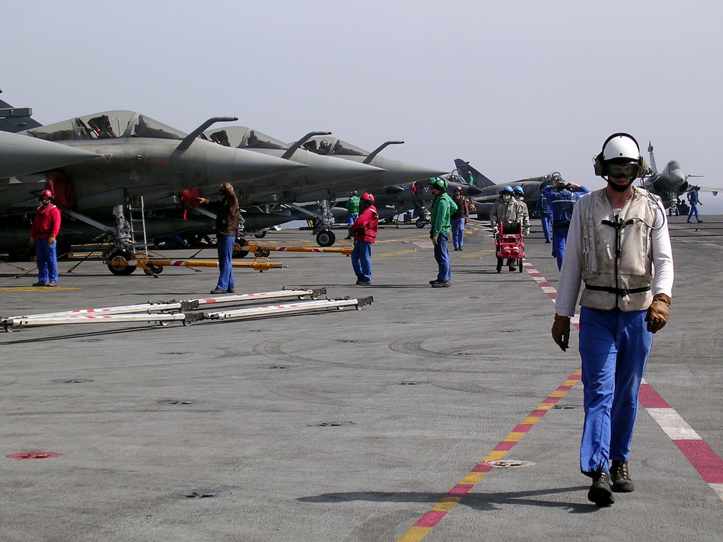 Nuclear aircraft carrier Charles de Gaulle (R 91)